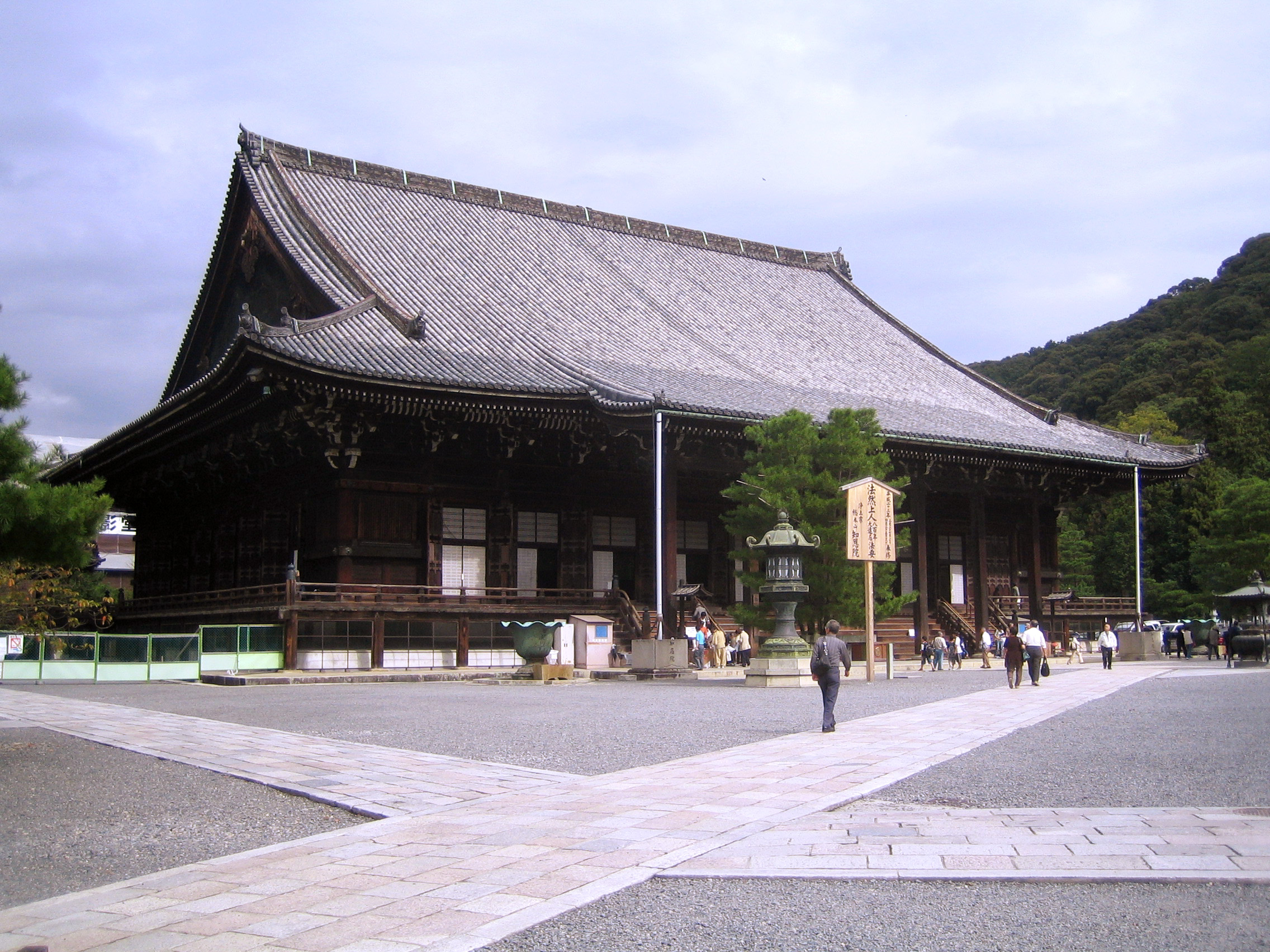 The main hall "Mieido" (御影堂 Mieidō) of the Chion-in (知恩院), at HigashiyamaKyoto, Kyoto, Japan